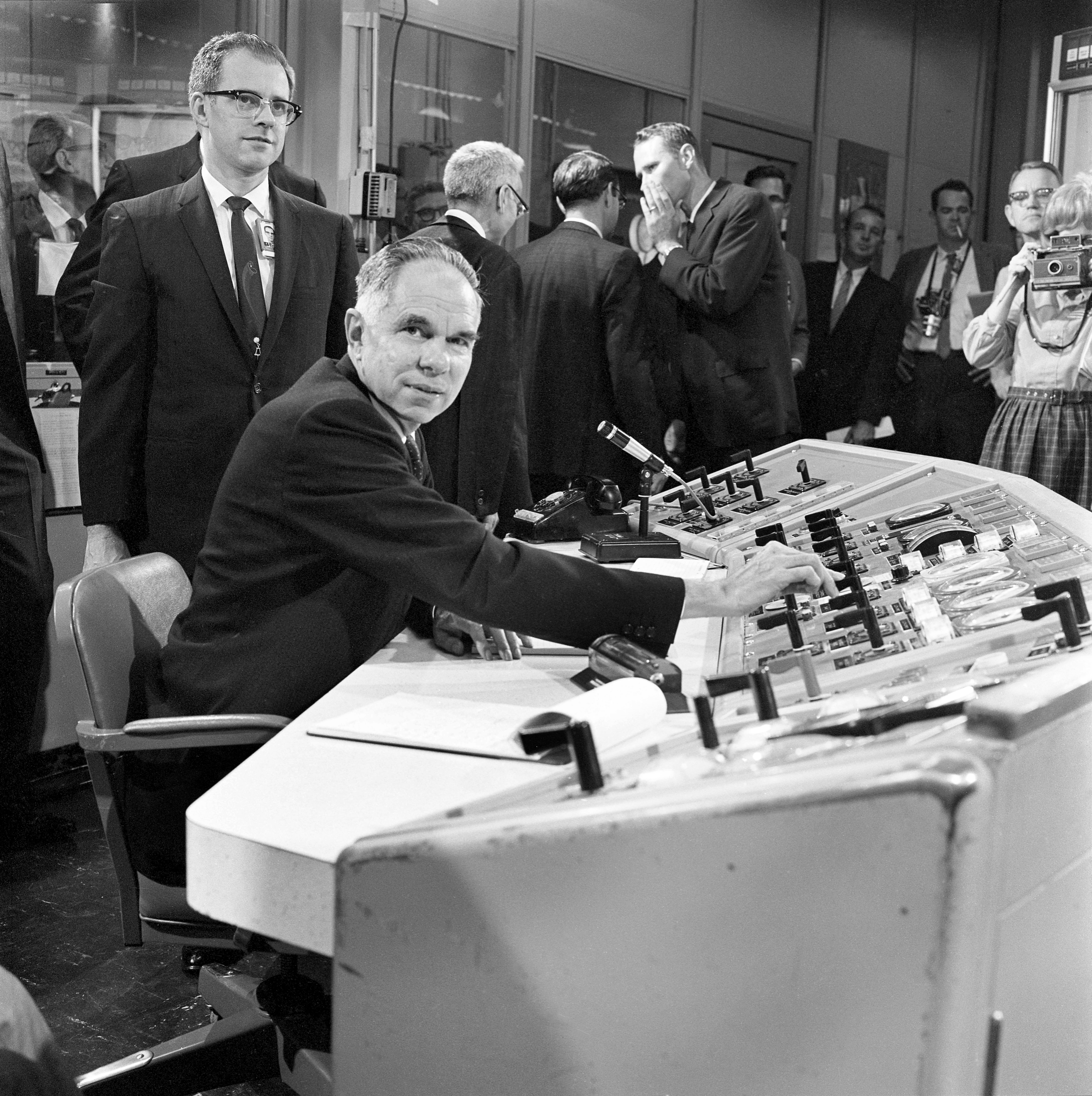 Startup of MSRE with U-233 with Atomic Energy Commission Chairman Glenn Seaborg on the controls 1968 Oak Ridge 68-510 DOE photo Frank Hoffman 10-10-1968 Molten Salt Reactor began operating with uranium-233 fuel Oak Ridge Tennessee